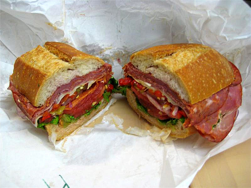 Photo I took of an Italian sandwich I bought at a deli in San Francisco.